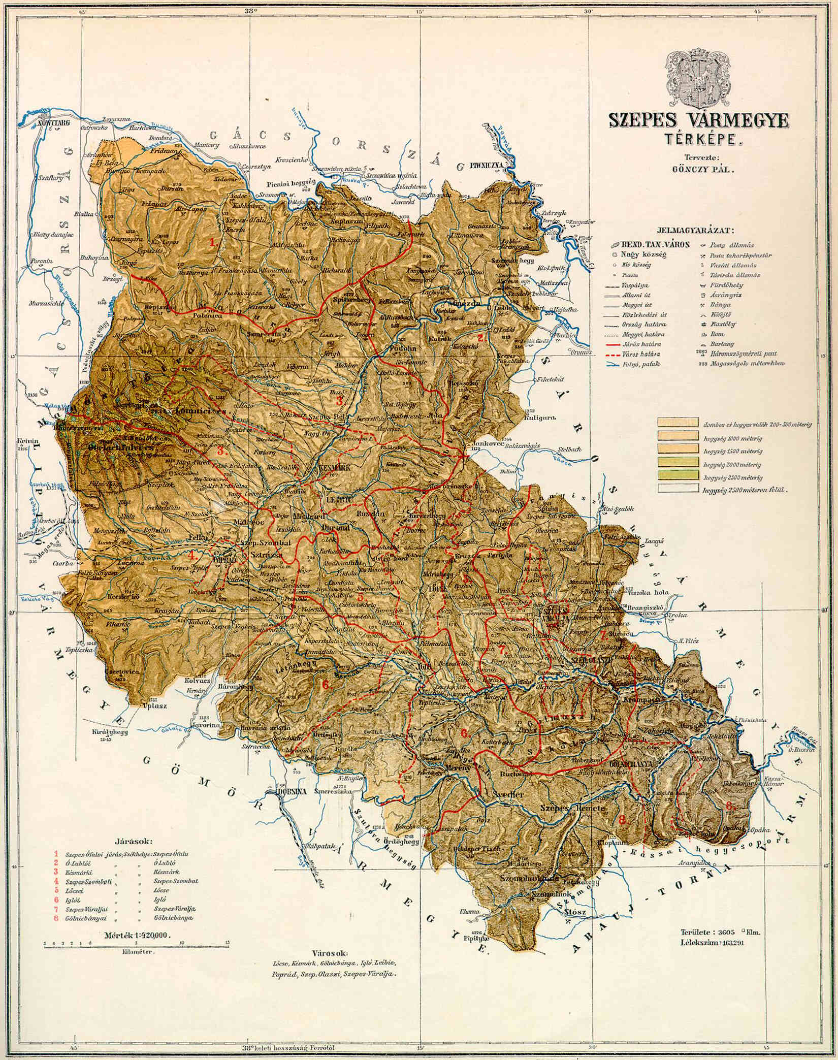 County of Szepes in the pre-Trianon Kingdom of Hungary. Komitat Szepes w Królestwie Węgier przed traktatem w Trianon.